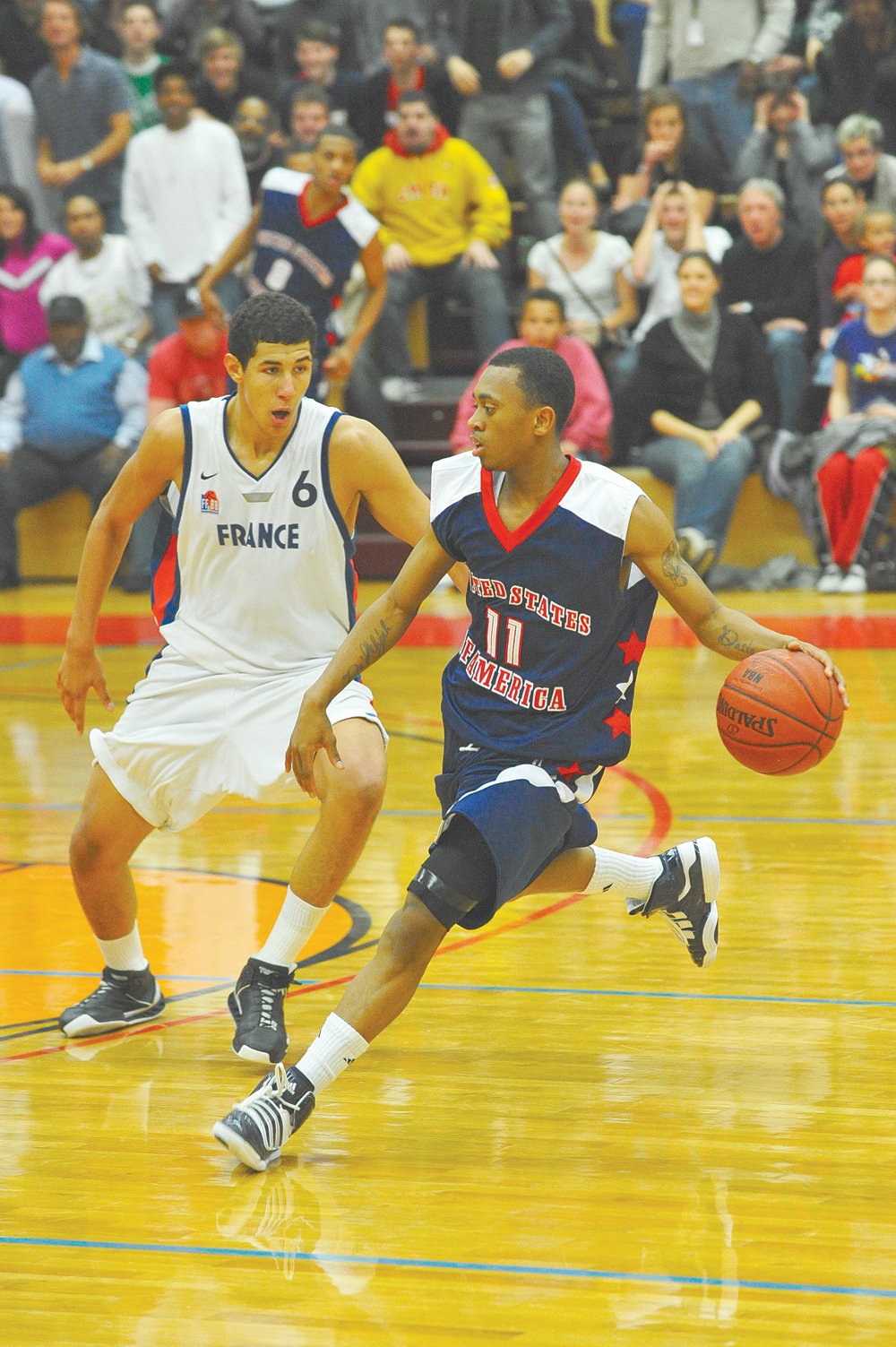 Ryan Boatright of the United States at the Albert Schweitzer Basketball Tournament in Mannheim, Germany